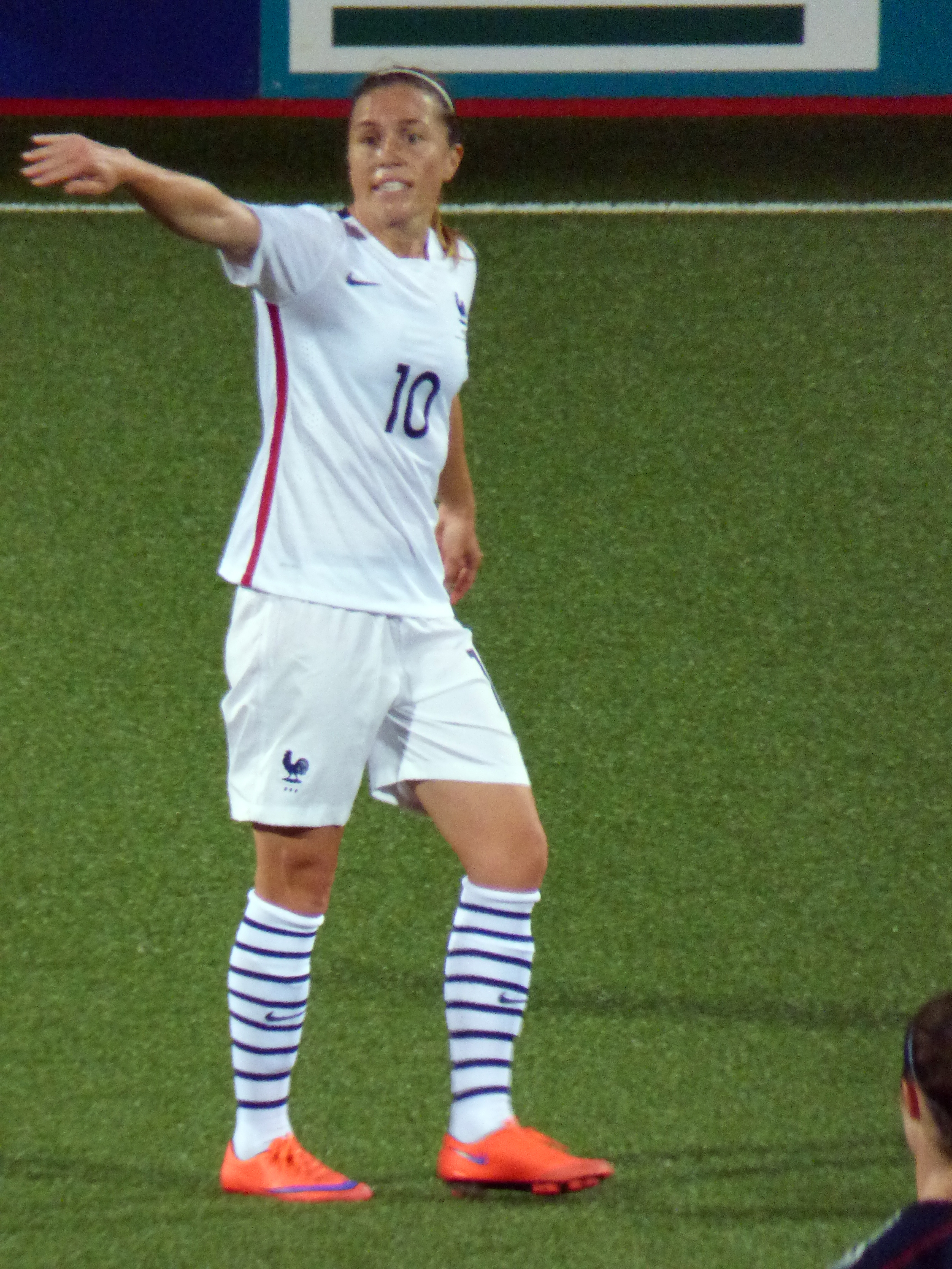 Camille Abily playing for France in May 2015